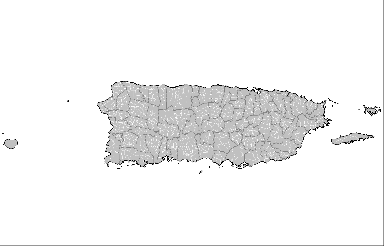 Map of the barrios (wards/districts) of Puerto Rico. Created by Rarelibra 15:34, 19 December 2007 (UTC) for public domain use, using MapInfo Professional and various mapping resources.